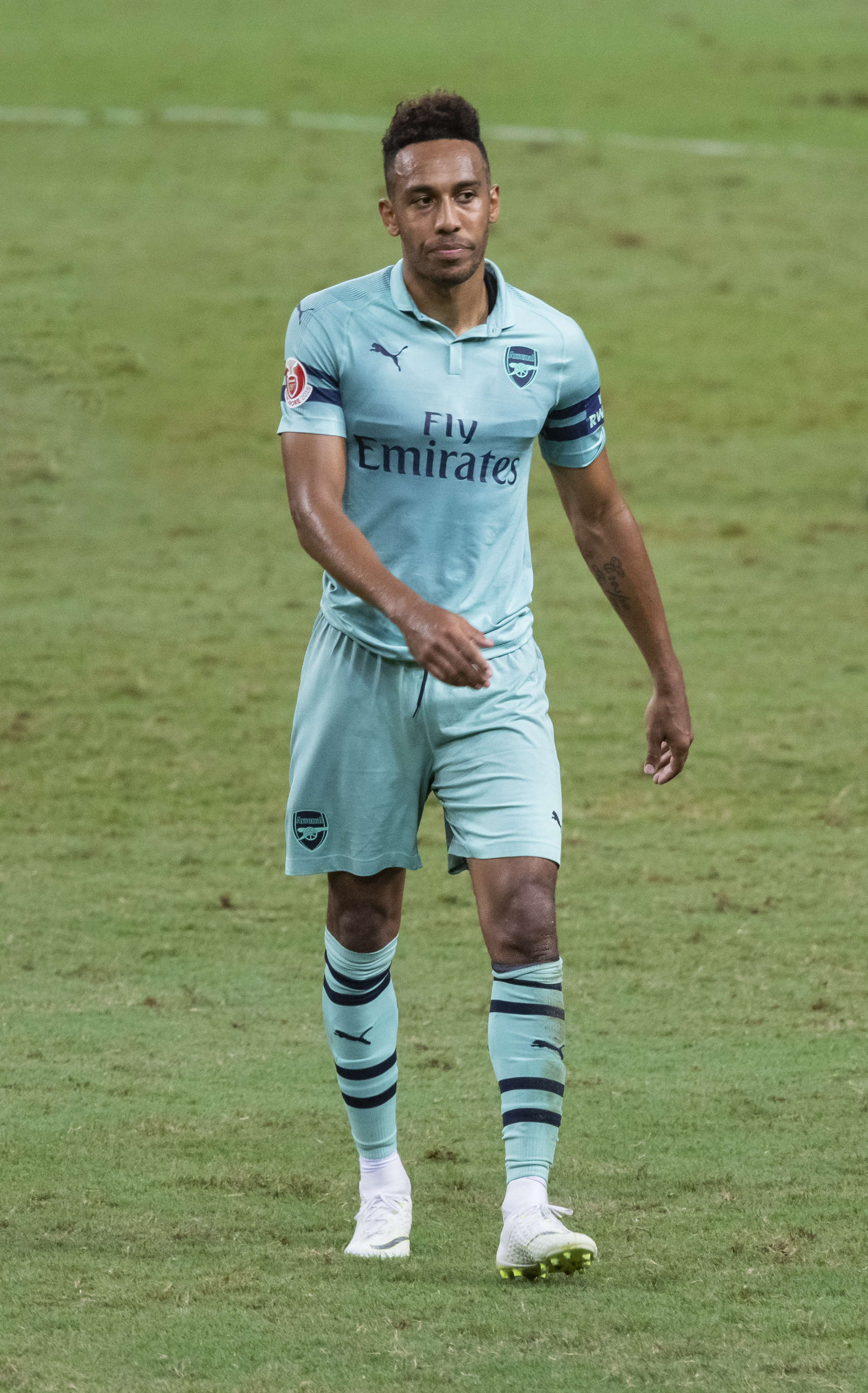 Pierre-Emerick Aubameyang Arsenal v PSG 2018 International Champions Cup Singapore National Stadium